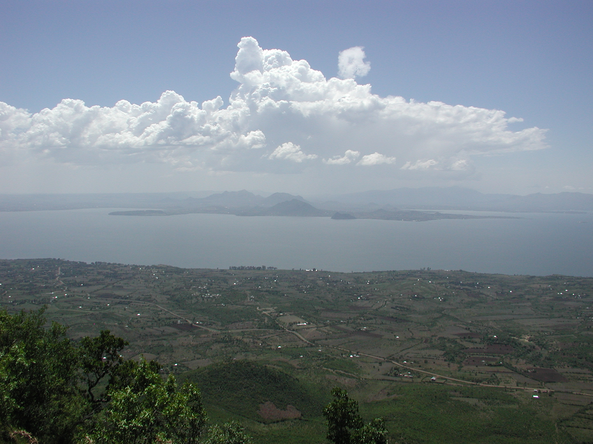 Homa Bay, on Winam Gulf, Lake Victoria, Kenya; View from atop Mount Homa